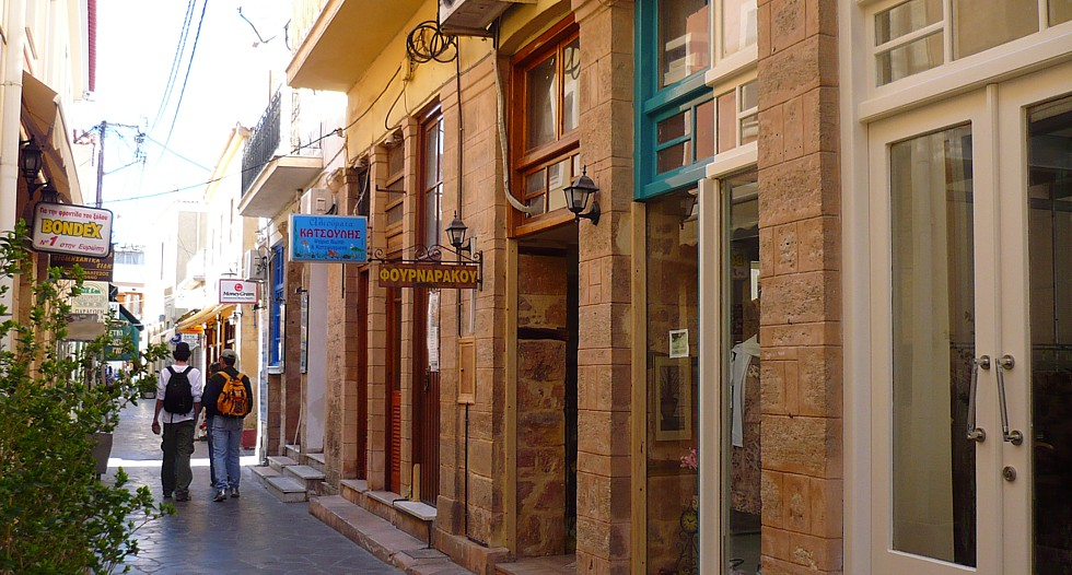 The picture depicts central cobbled road at Aegina.